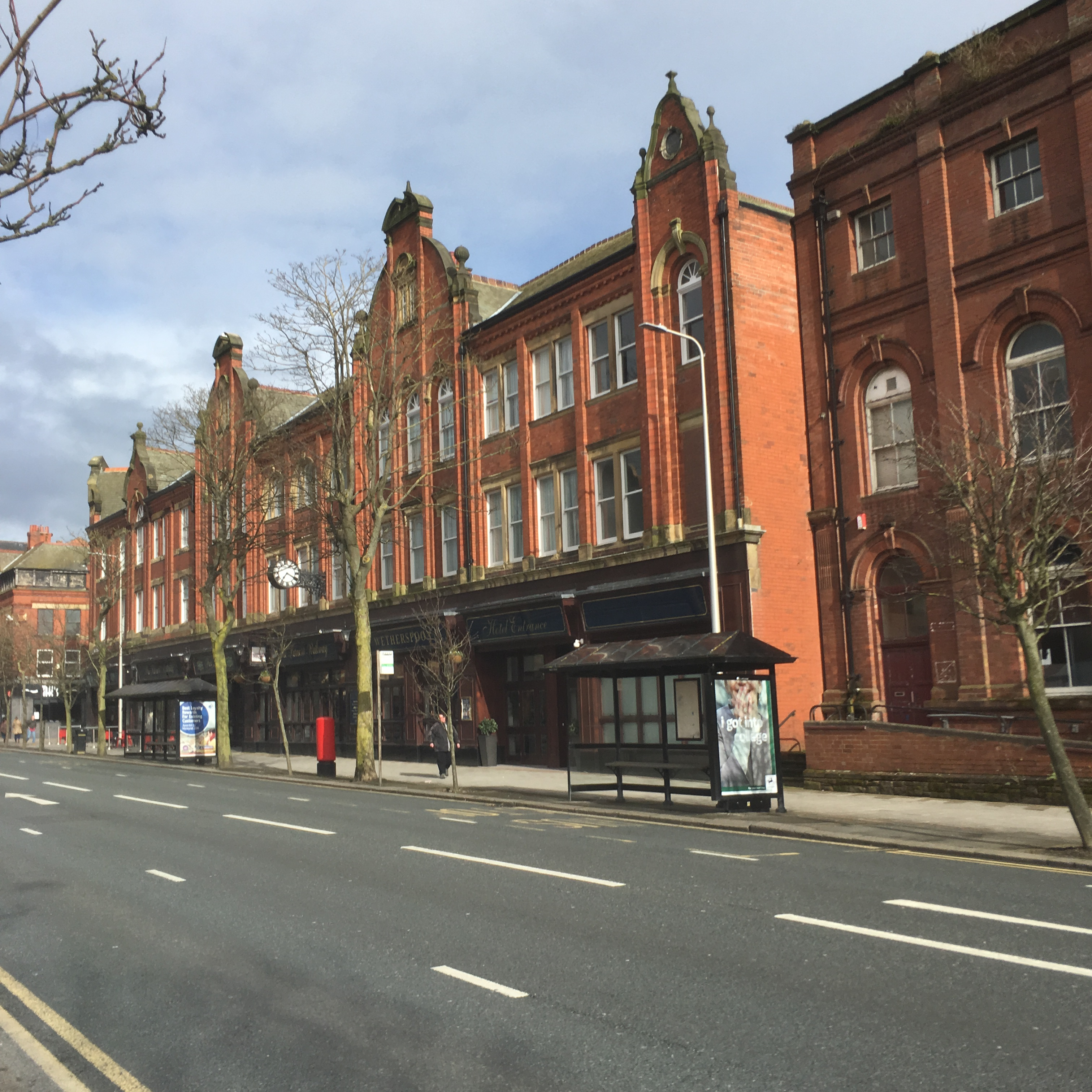 Furness railway public house and hotel, formerly a Cooperative Society department store